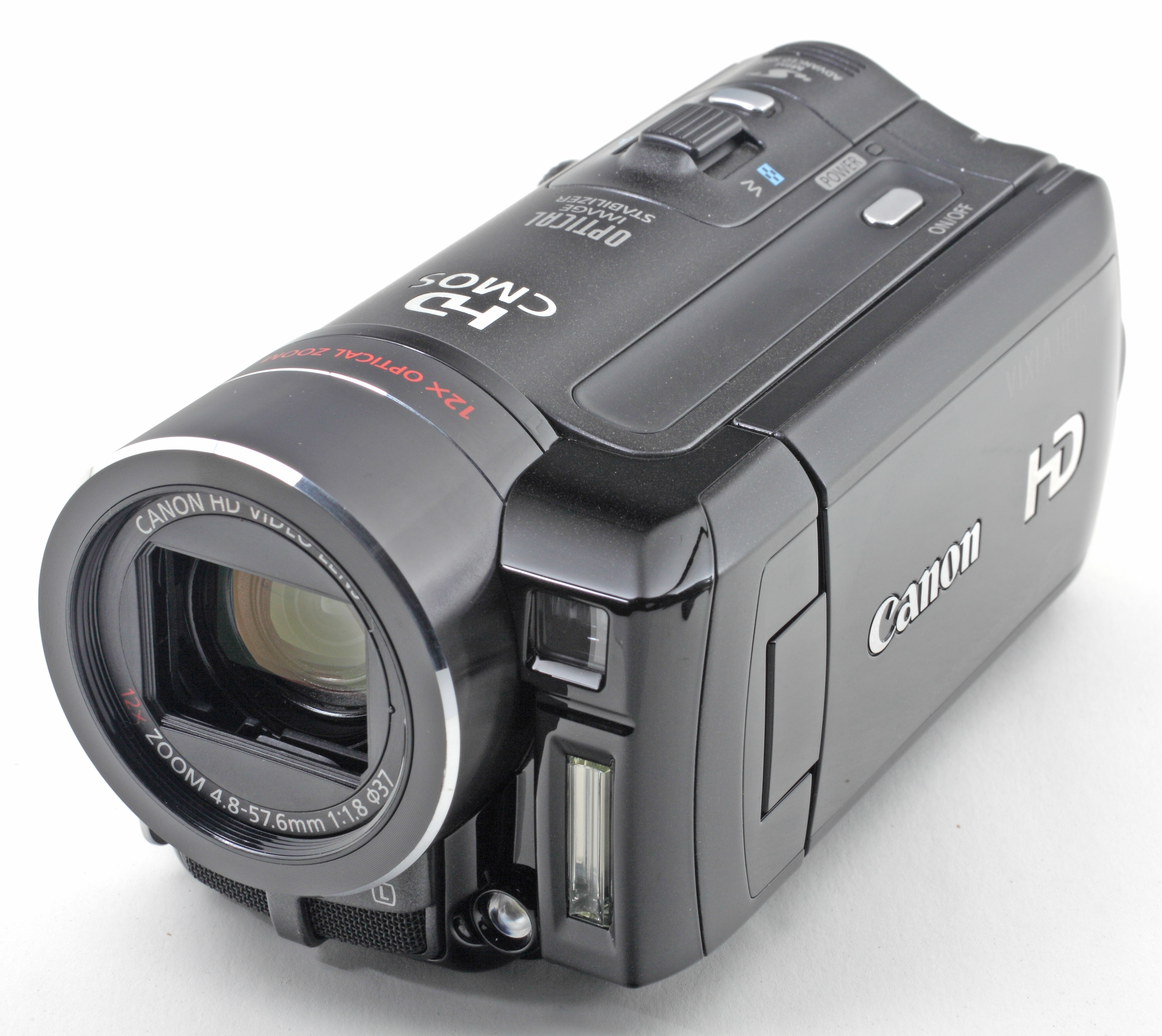 Front shot of the Canon VIXIA HF10.